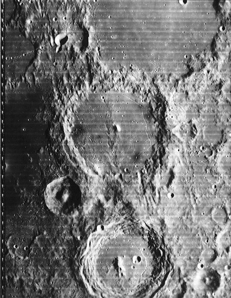 Ptolemaeus, Alphonsus and Arzachel craters. Image LO-IV-108-H2